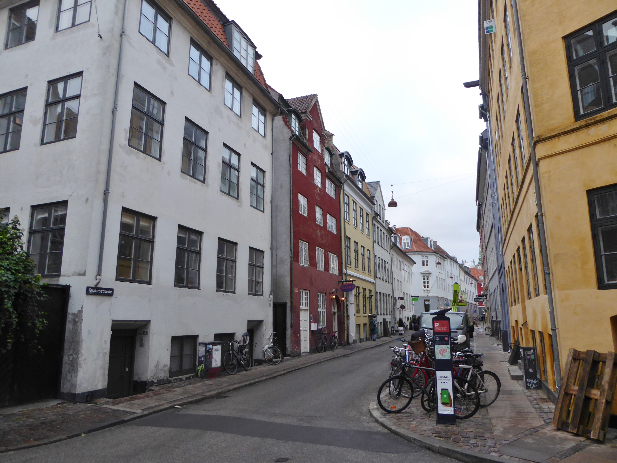 The street Knabrostræde at Magstræde in Indre By in Copenhagen.